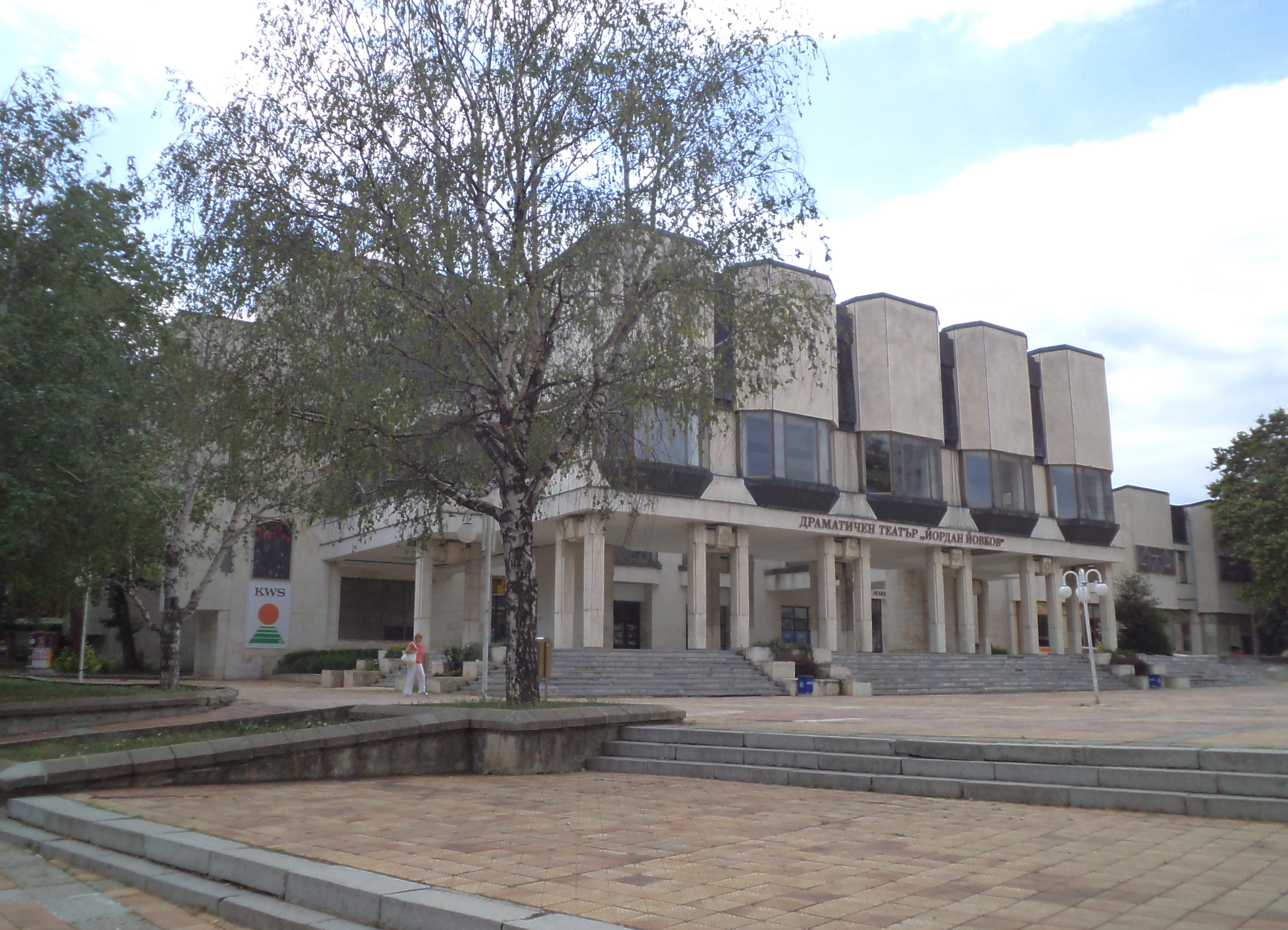 Drama theatre "Yordan Yovkov" in Dobrich, Bulgaria